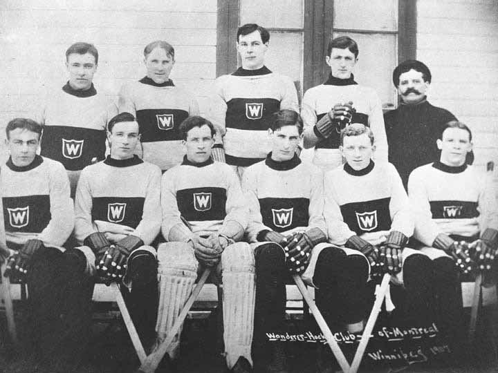 Montreal Wanderers hockey club in 1907 after they won the Stanley Cup.Top row, left to right: Bill Chipcase, Ernie "Moose" Johnson, Hod Stuart, Rod Kennedy, Paul Lefebvre.Front row, left to right: ?, Cecil Blachford, Riley Hern‚ Lester Patrick, Ernie Russell, Frank "Pud" Glass.